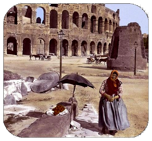 Rome, Colosseo - woman selling oranges hand painted Photo